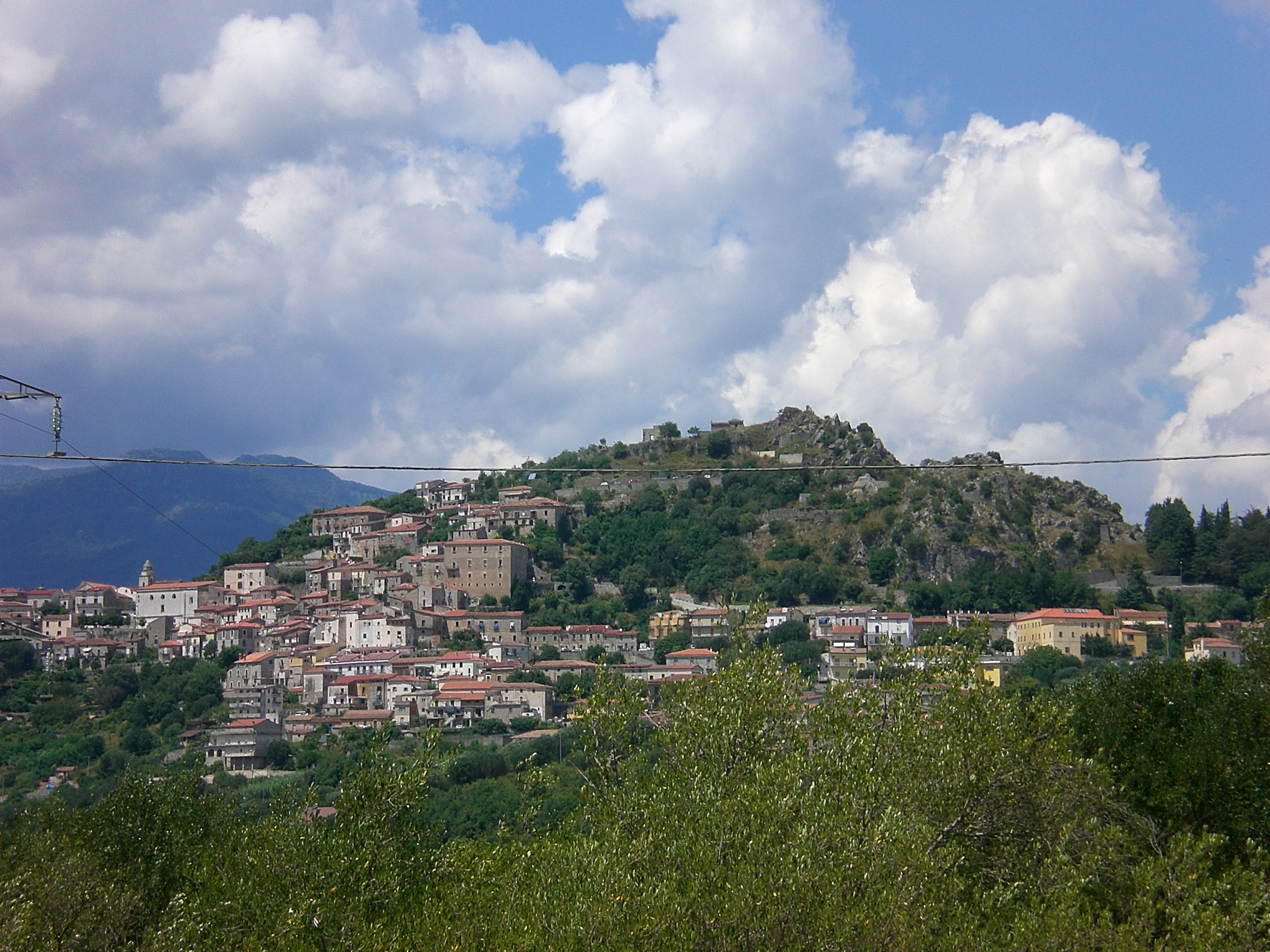 View of Roccagloriosa. In Cilento and Vallo di Diano National Park — in Campania.